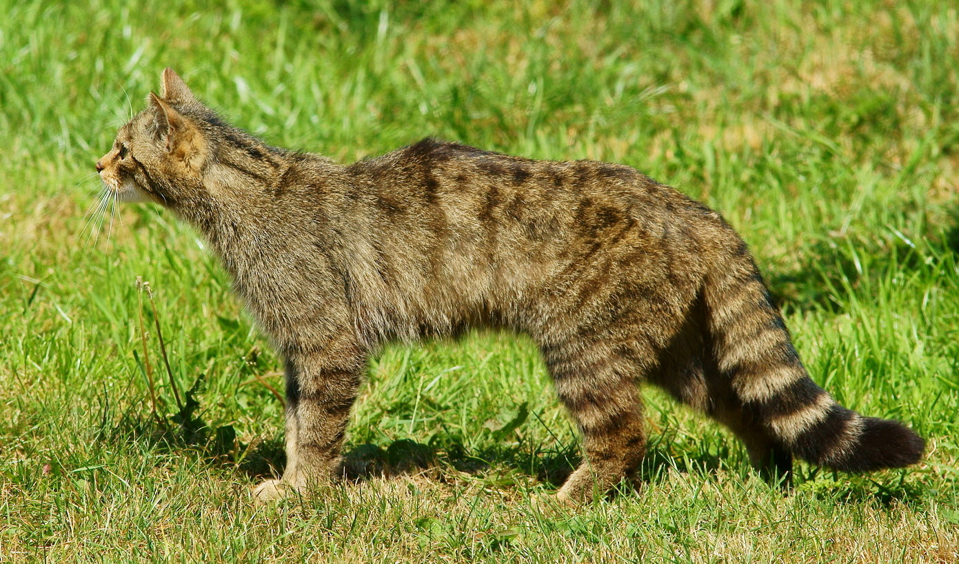 Seen at the British Wildlife Centre, Newchapel, Surrey; at the afternoon Keeper's talk.